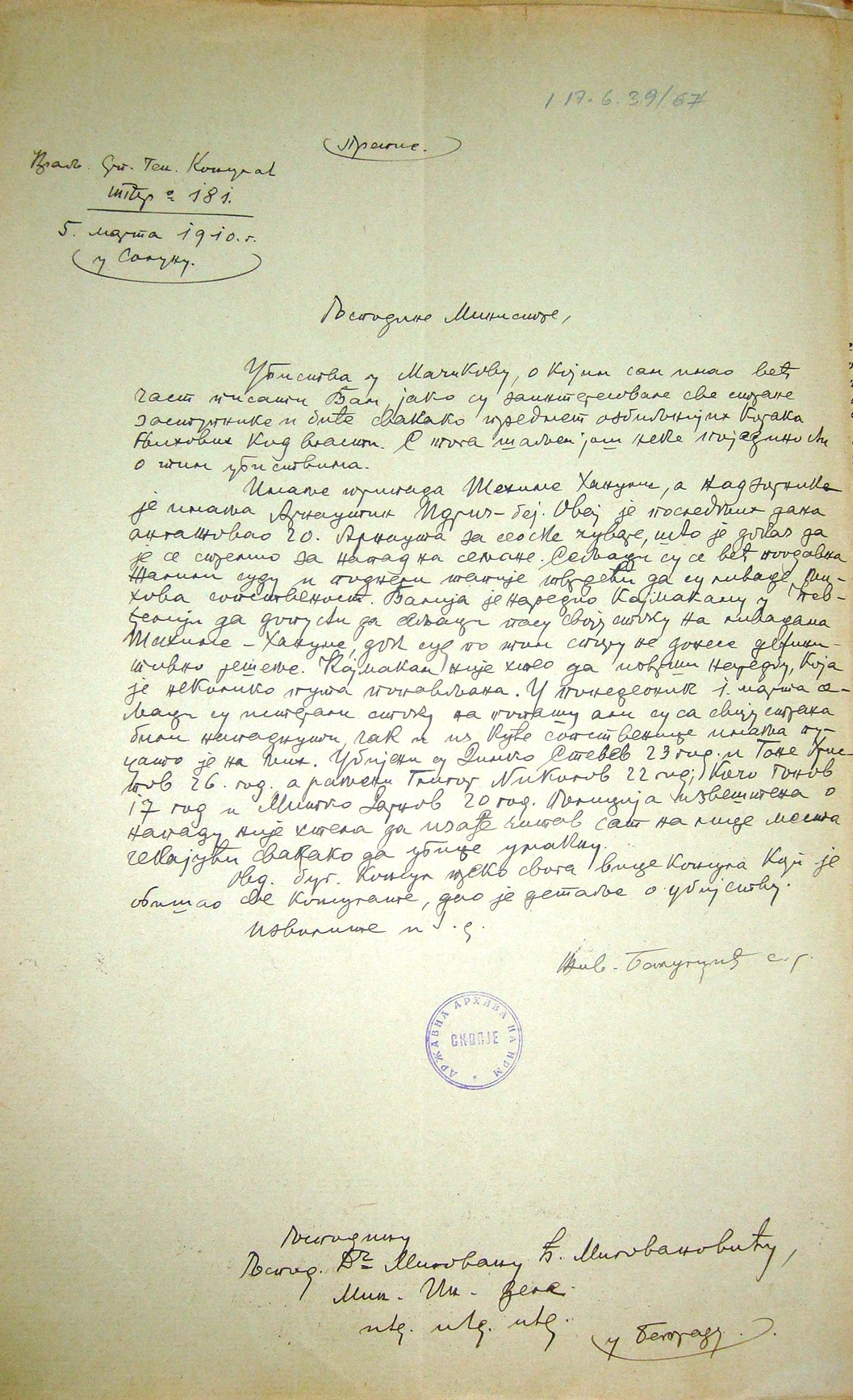 Report from Balugdzhikj for killing villagers in the village Machukovo, on the property of Shehim Hanumi, because they grazed the cattle on the pastures which are rural property for a longtime. (Thessaloniki, March 5, 1910) This media file is produced by Wikipedian in Residence in Category:Wikipedian in Residence at DARM in 2016.